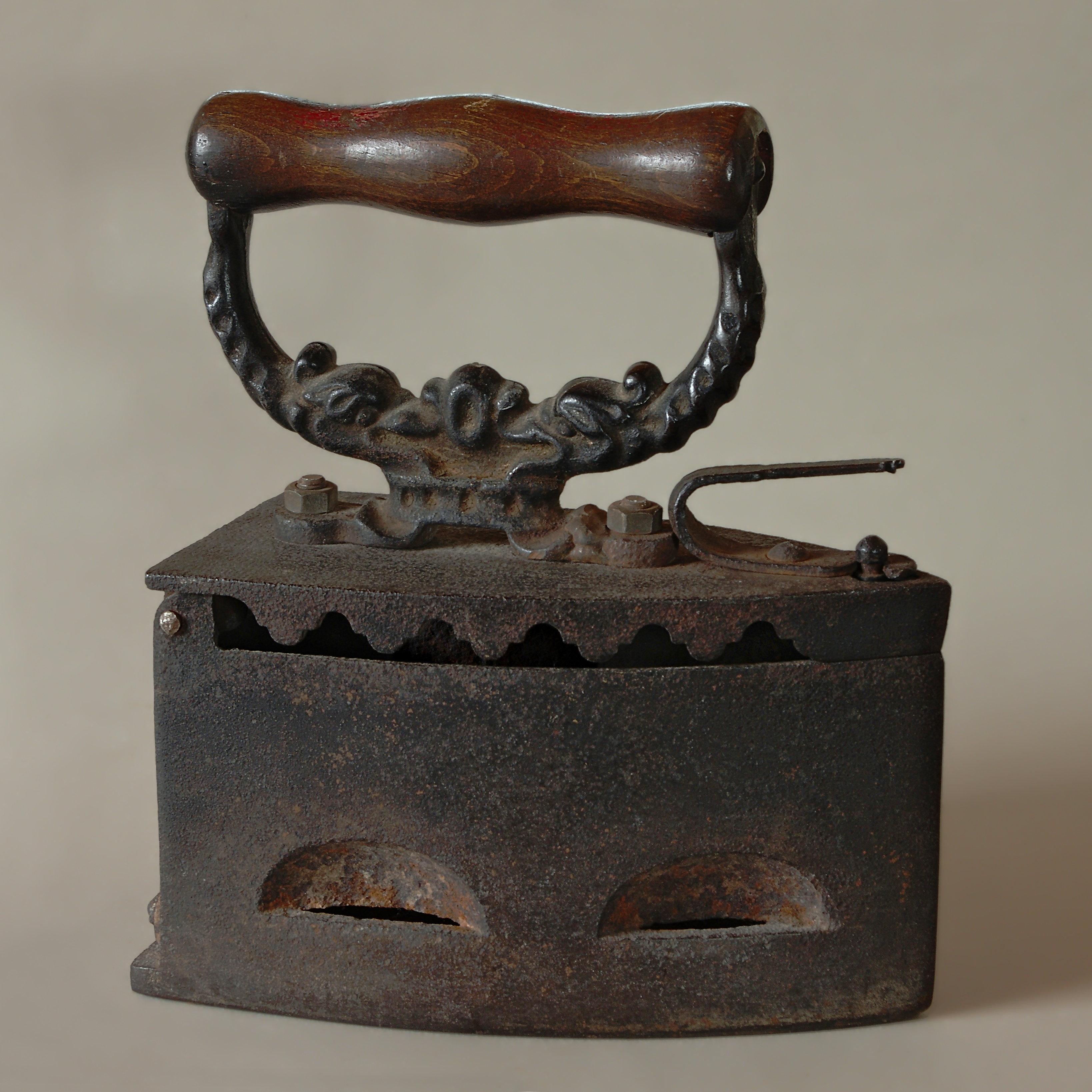 Charcoal iron (ca. 1900), private collection, Charente, France.